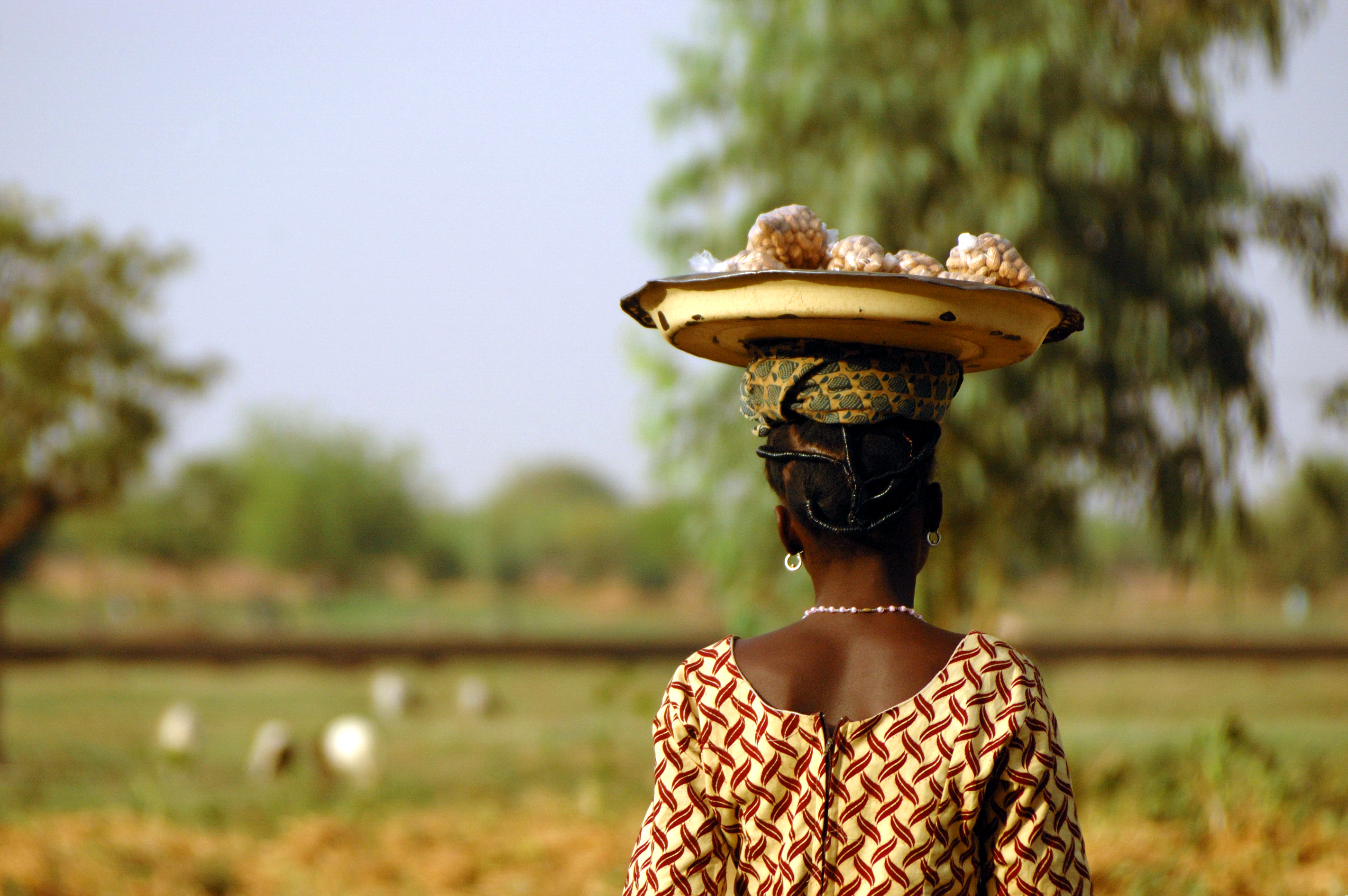 Peanuts seller in Ouagadougou